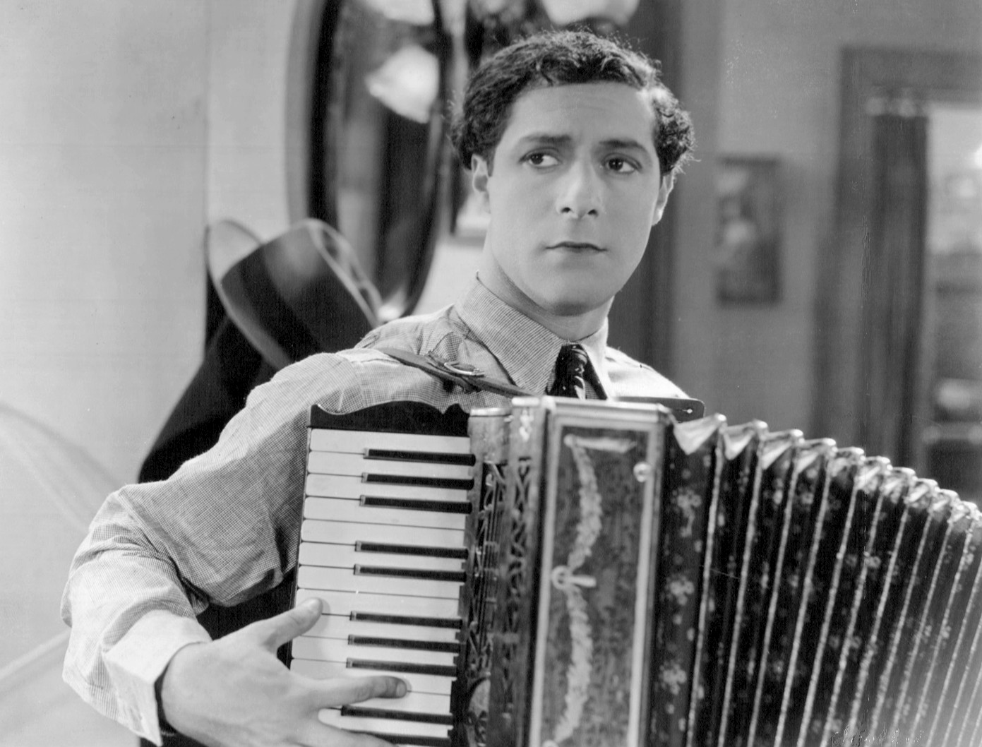 Photo of George Jessel from the film Love, Live and Laugh (1929).